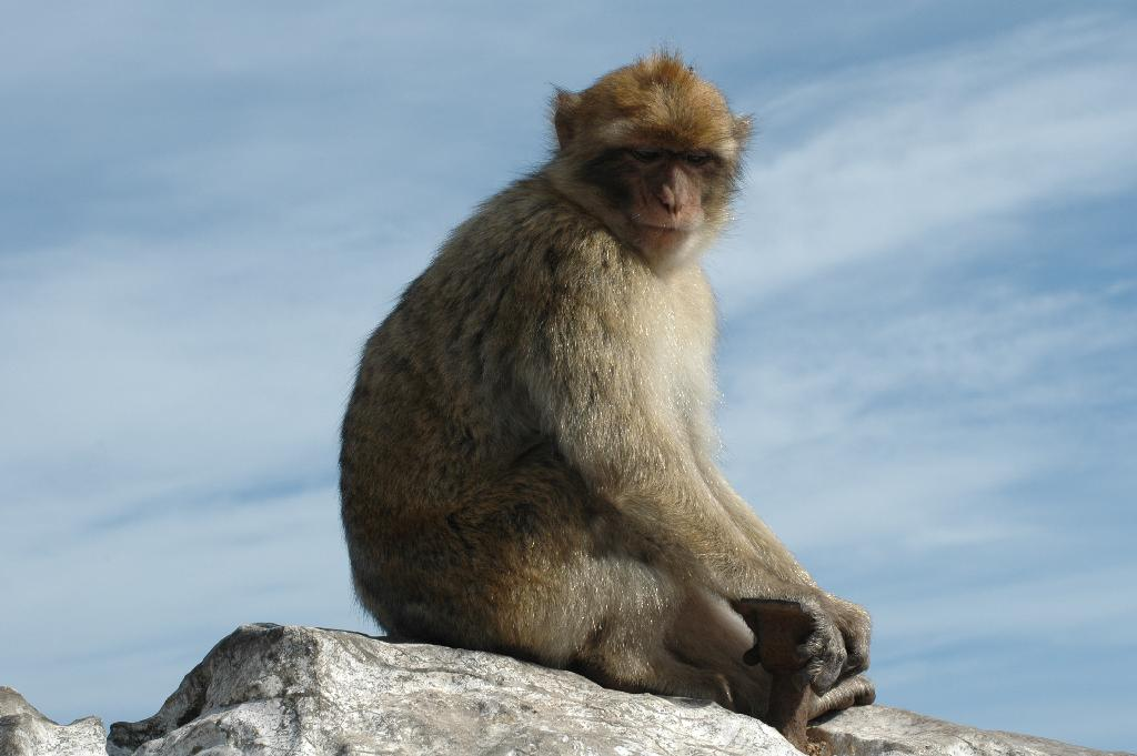 Barbary Macaque or Barbary Ape (Macaca sylvanus) Location: The Rock of Gibraltar, on the Iberian Peninsula